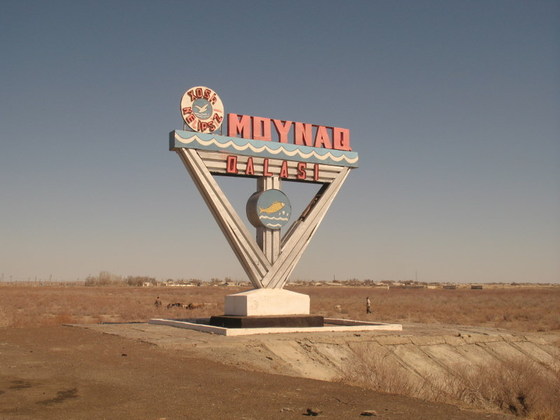 Mo‘ynoq city entrance, Aral Sea, Uzbekistan